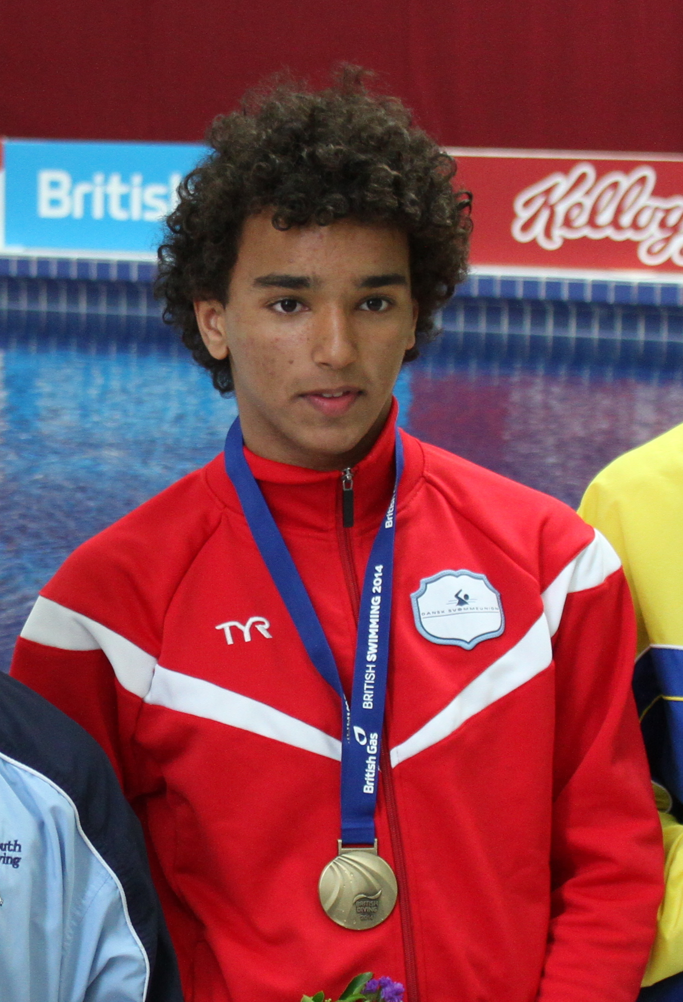 Dane Andreas Sargent Larsen at the award ceremony for British Gas Elite Junior Diving Championships at Plymouth Life Centre in May 2014.